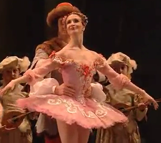 Cuthbertson as Aurora